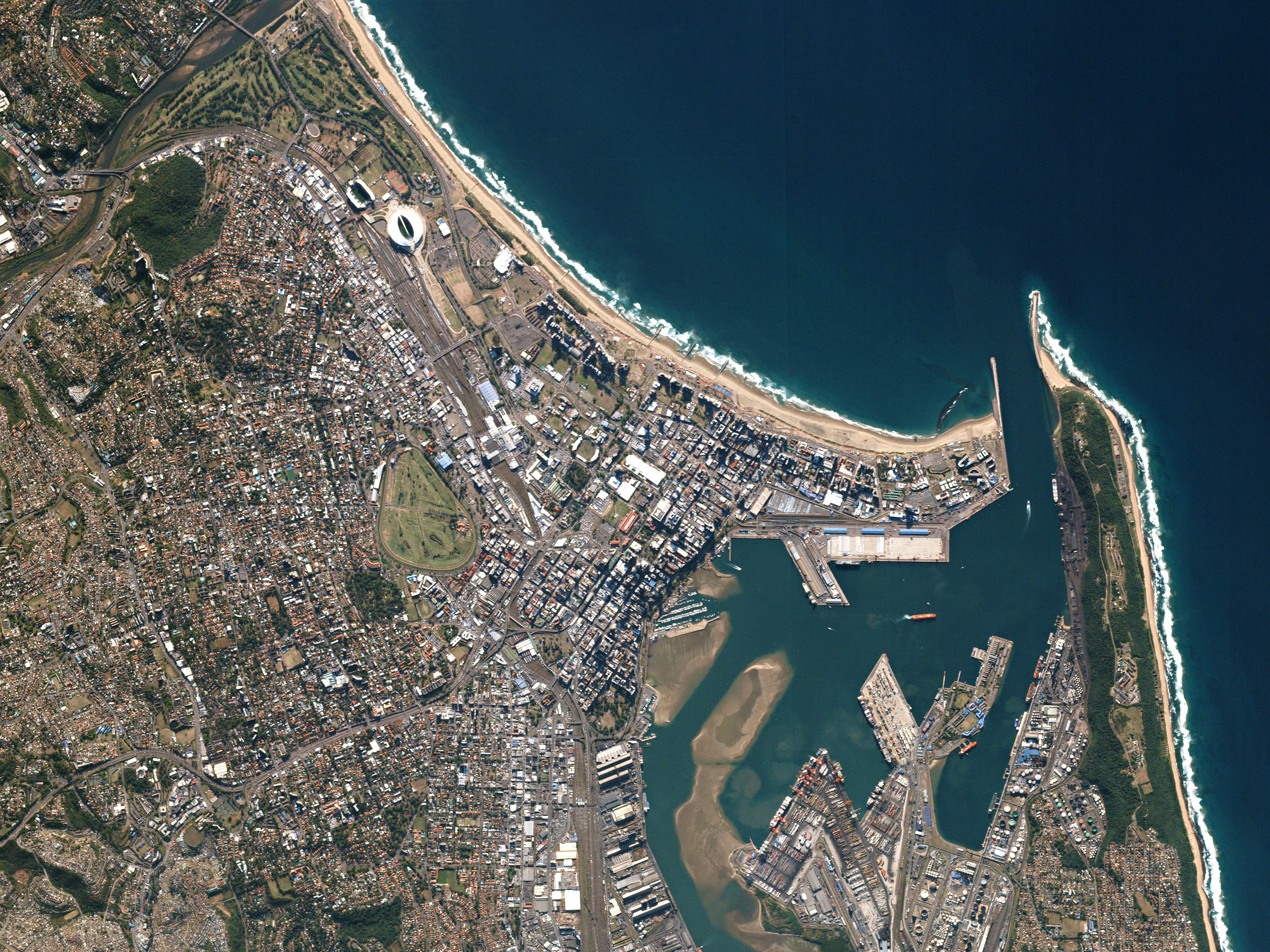 Durban South Africa July 18, 2016 Durban, with its popular beach spot, the Golden Mile, attracts throngs of tourists. 1.45 million visited the city and nearby attractions over the course of 45 days last summer. Moses Mabhida Stadium, visible just behind the beach, played host to several games of the 2010 World Cup.